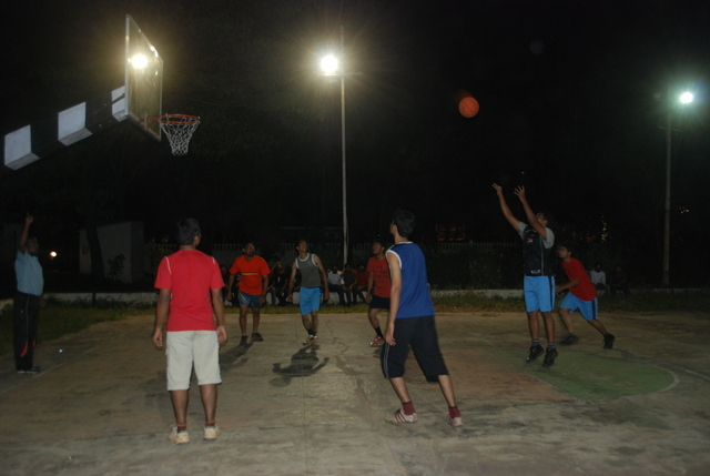 basketball at rmc